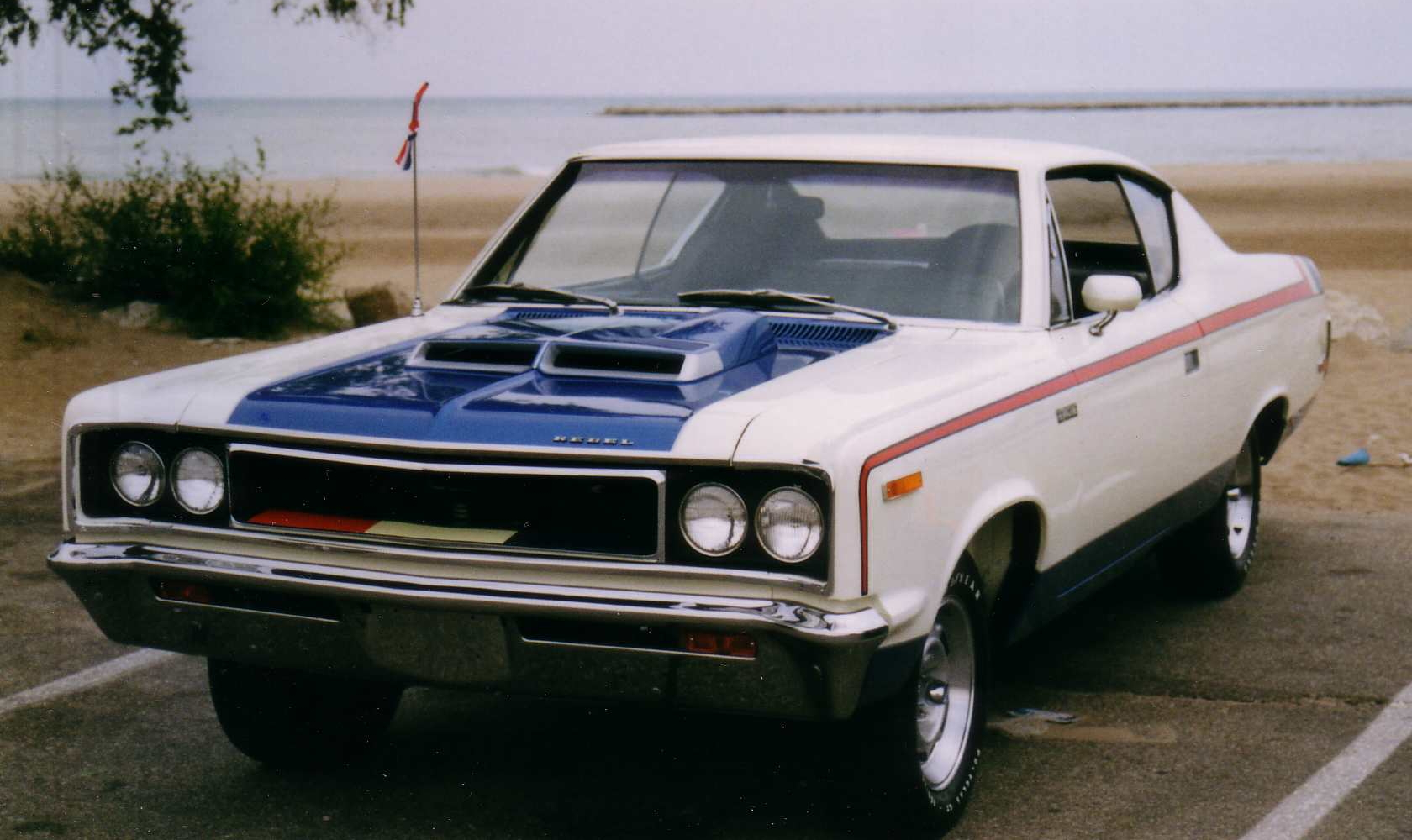 American Motors Corporation (AMC) 1970 Rebel two-door hardtop (coupe) - The Machine, a traditional mid-size U.S. muscle car finished in the factory red/white/blue trim. Background is Lake Michigan.